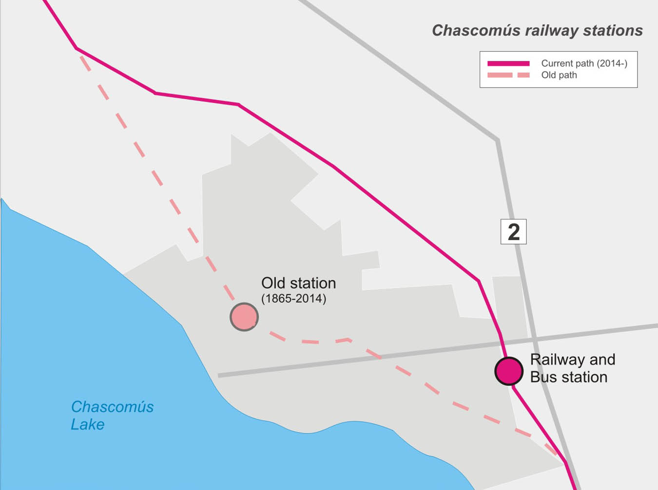 Map of the Chascomús railway stations, the old building (opened in 1865) and the new railway/bus terminus, inaugurated in December 2014. A new tracks section had to be built for the new station, which is located in a suburban area, far from the Chascomús' downtown.